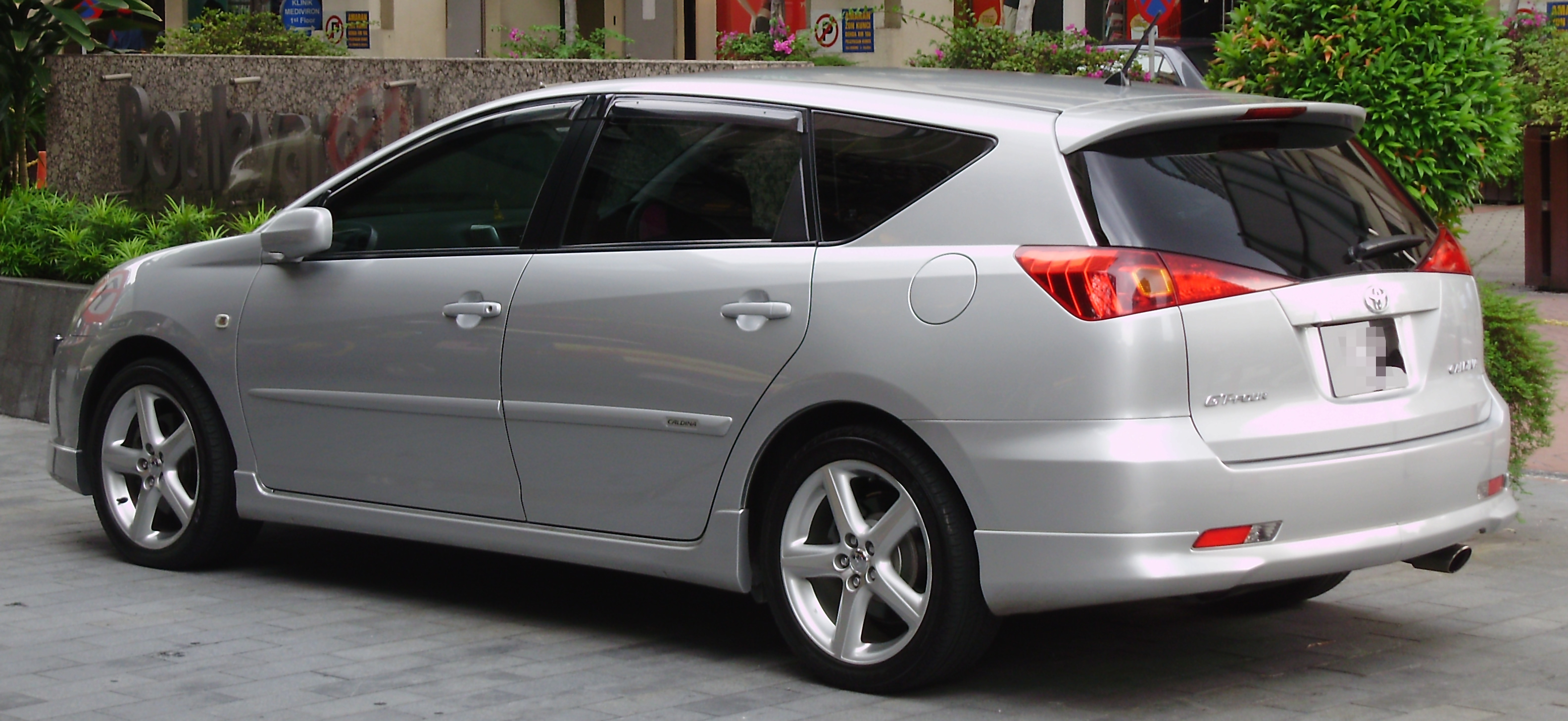 Rear quarter view of a third generation GT-Four Toyota Caldina in Kuala Lumpur, Malaysia.